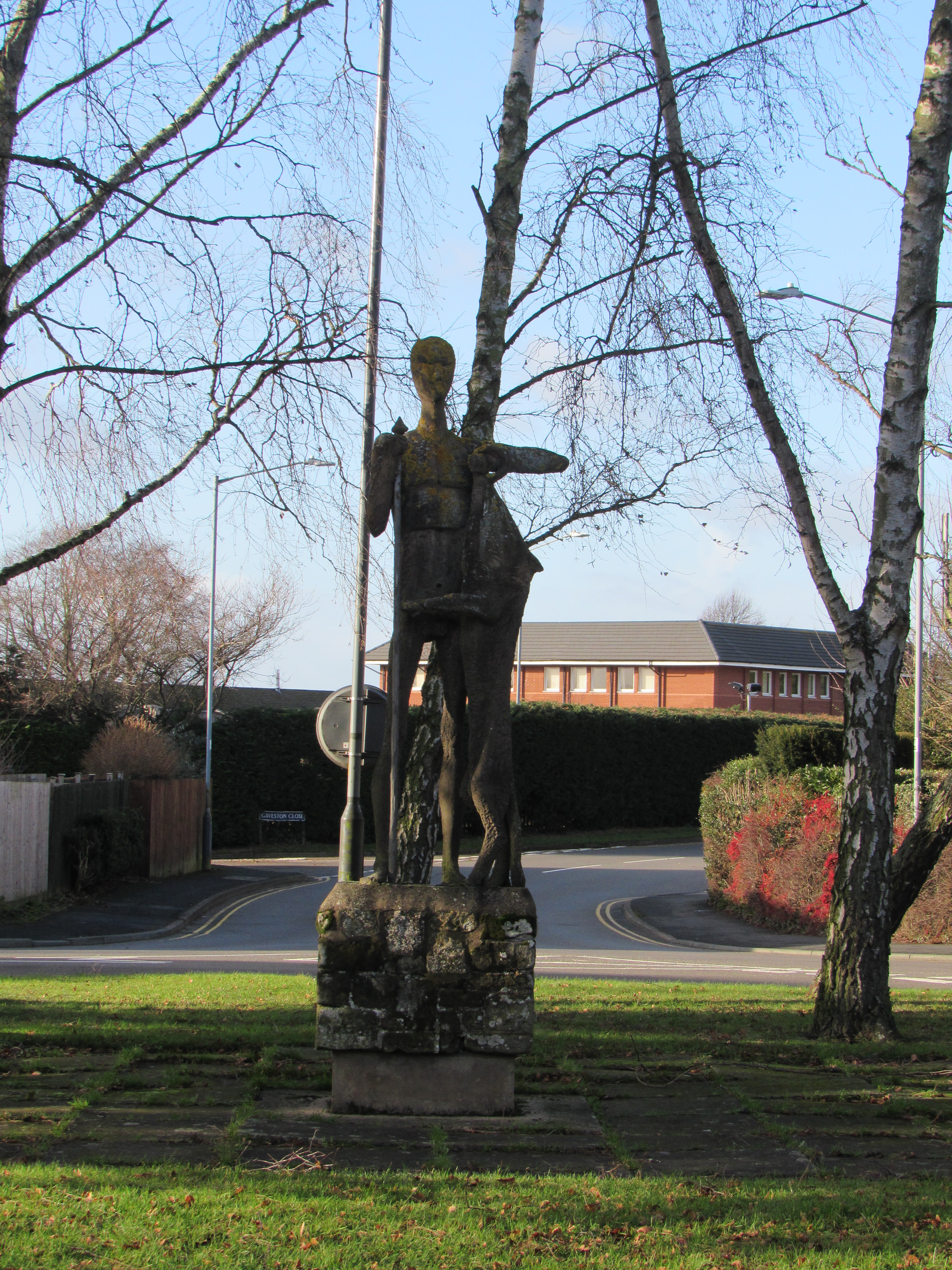 Guy and the Boar, Coventry Road, Warwick